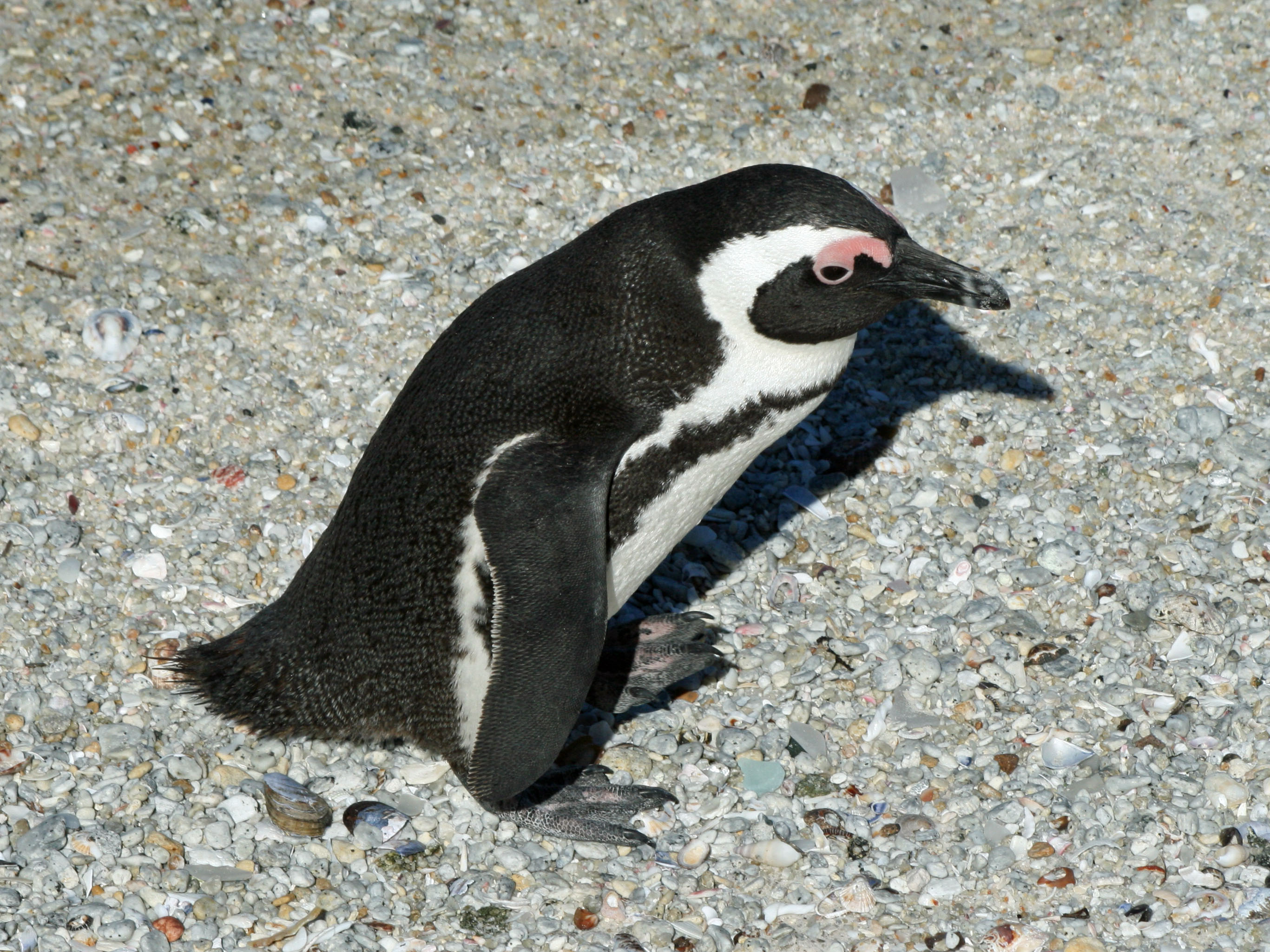 Juvenile African Penguin, also Jackass Penguin (Spheniscus demersus) - Boulders Beach, South Africa